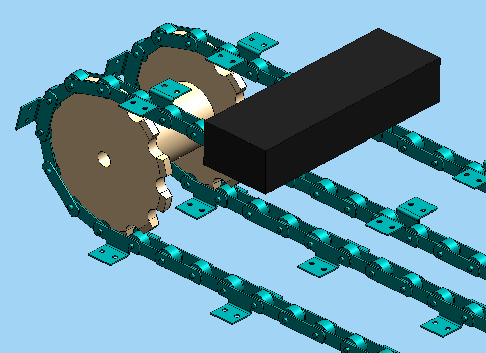 Roller-chains conveyor